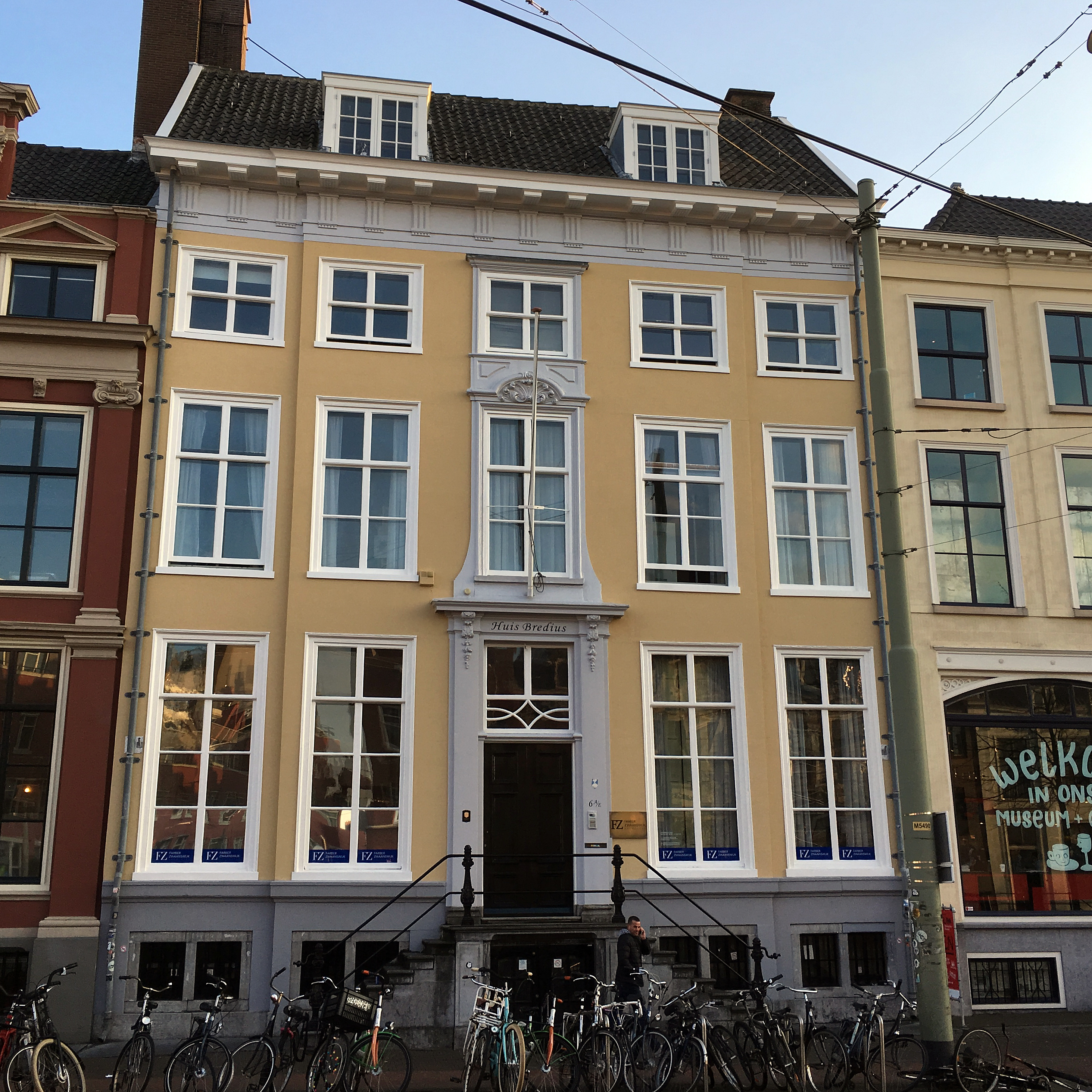 House Abraham Bredius (1855-1956) at the Prinsegracht 6 in The Hague. Bredius was a Dutch Rembrandt expert, painting collector, patron and archives researcher. He was also the posthumous founder of the Museum Bredius, which was originally located in his former residence.